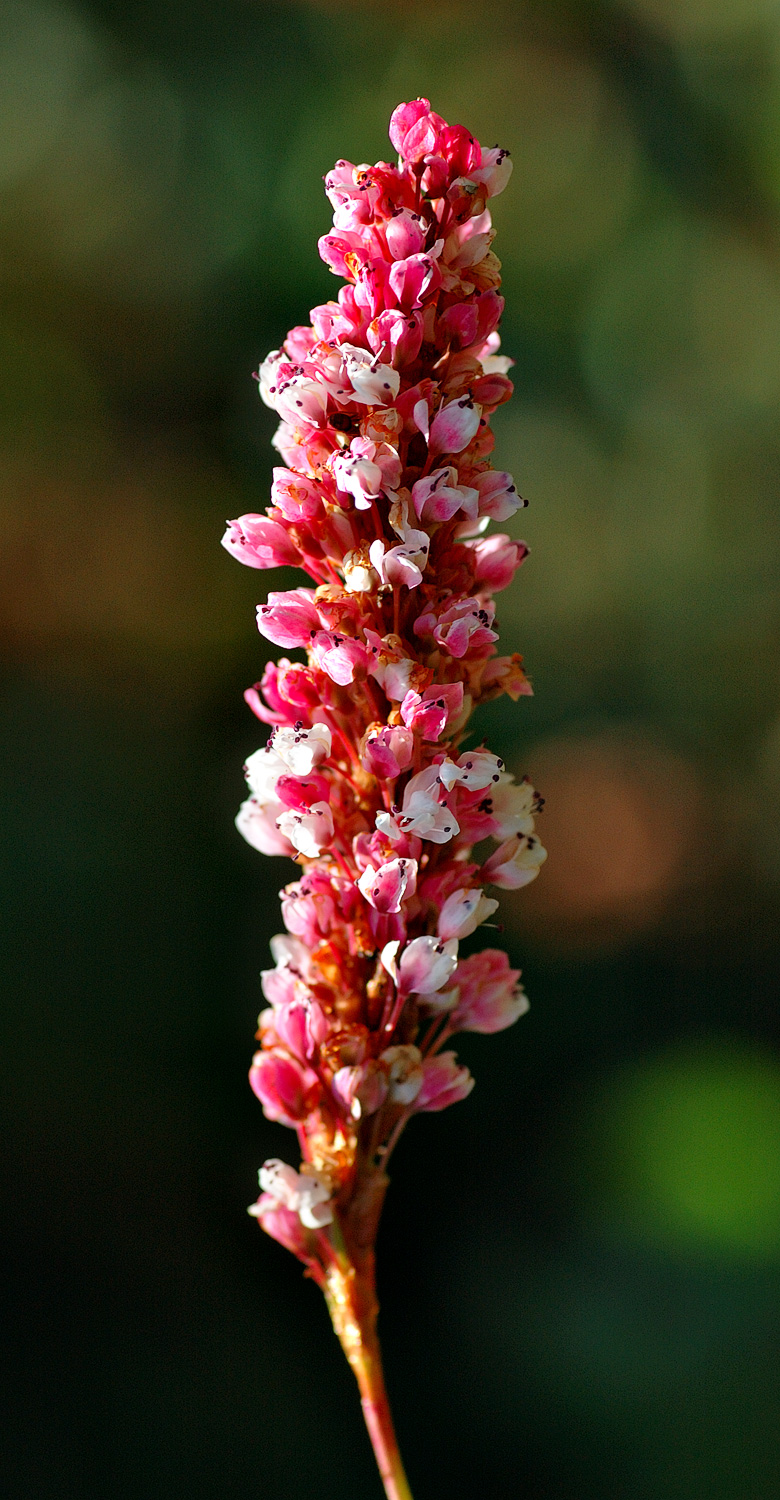 This image shows a Himalayan Fleeceflower (Bistorta affinis, syn. Polygonum affine).